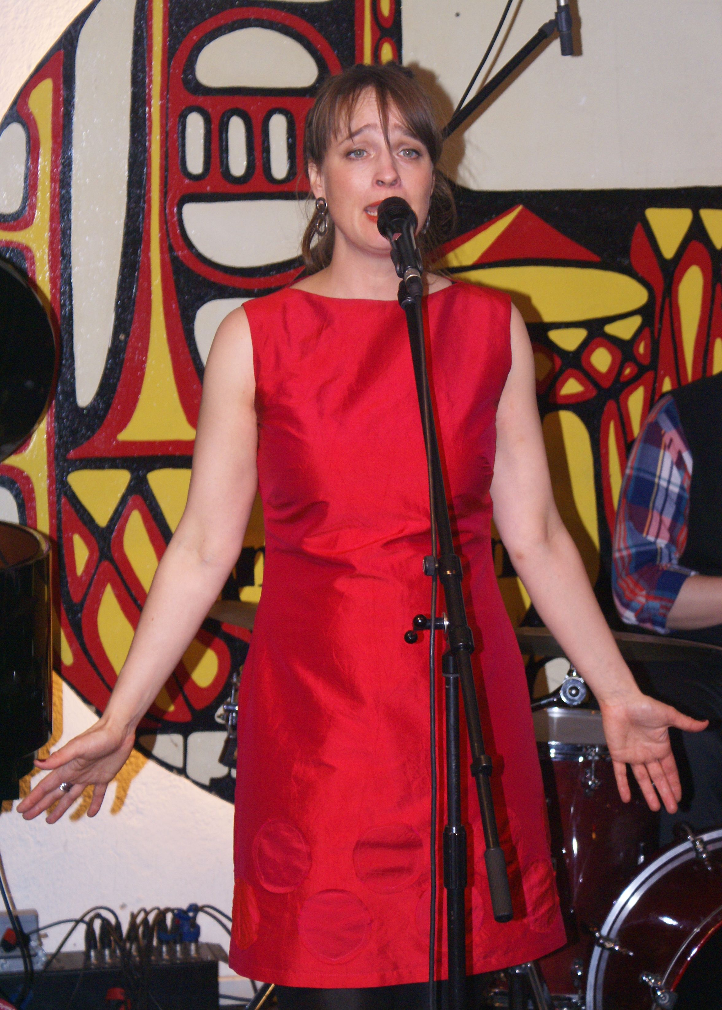 Swedish Jazz singer Jeanette Lindström in the Minden Jazz Club, Germany